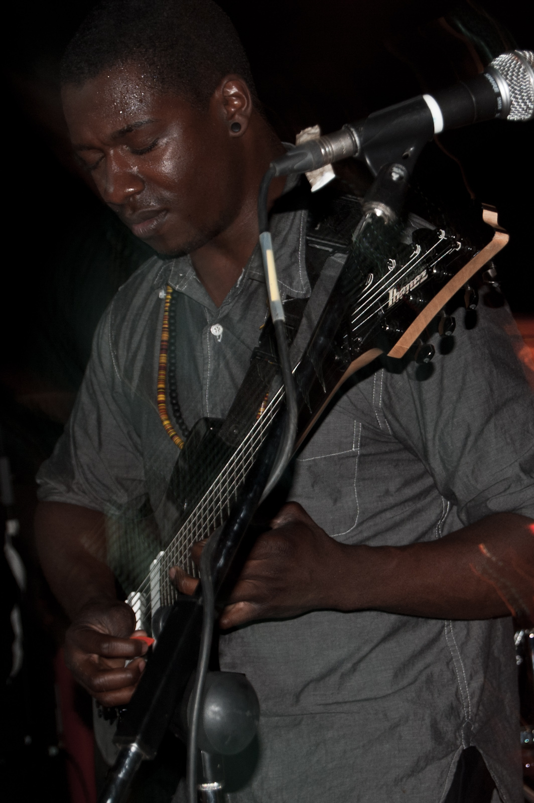 Animals as Leaders @ The Forum, Tunbridge Wells (28/08/2011)